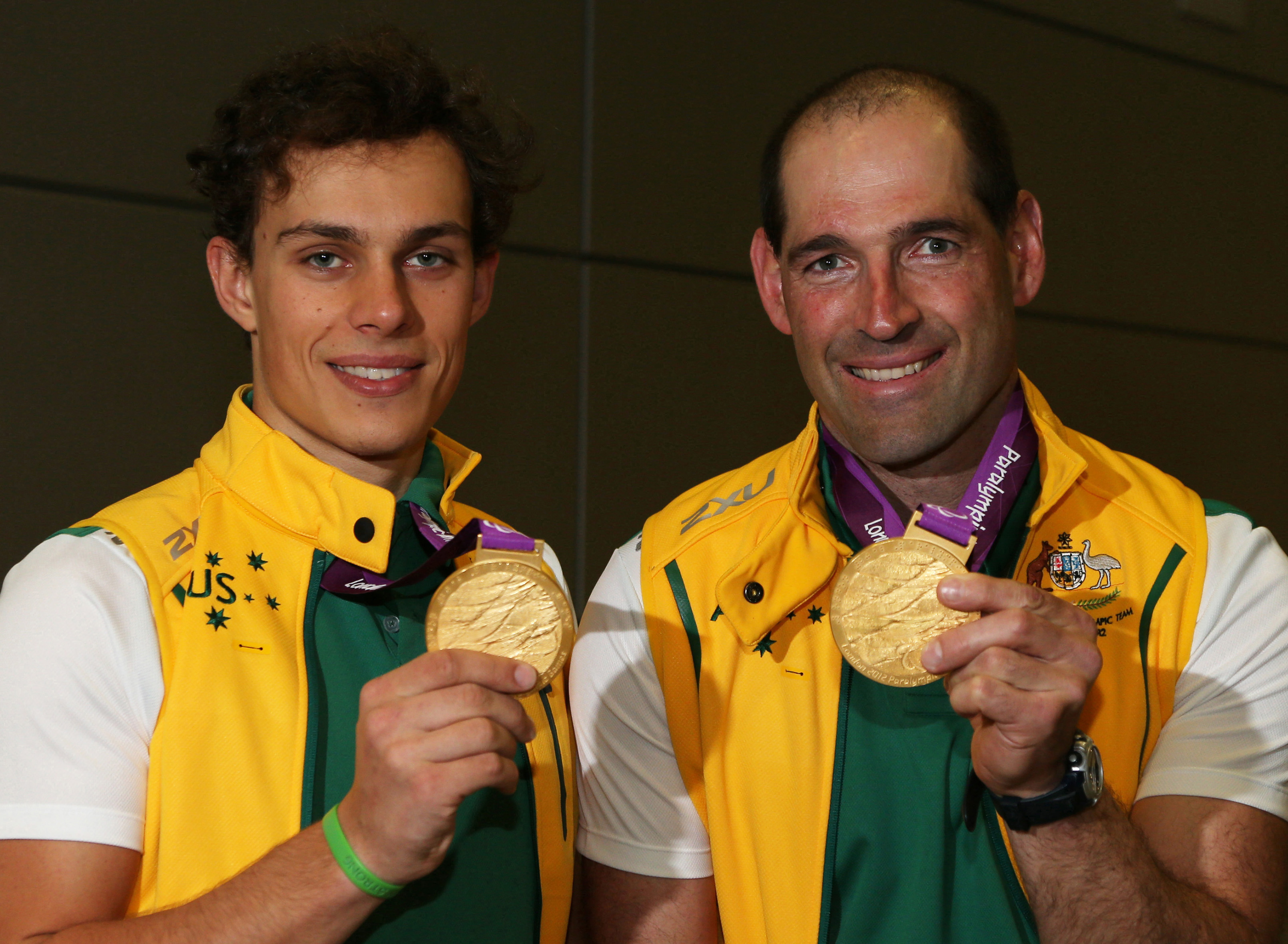 Photograph of Australian Paralympic team members Scott McPhee & Kieran Modra at the 2012 Summer Paralympic Games in London